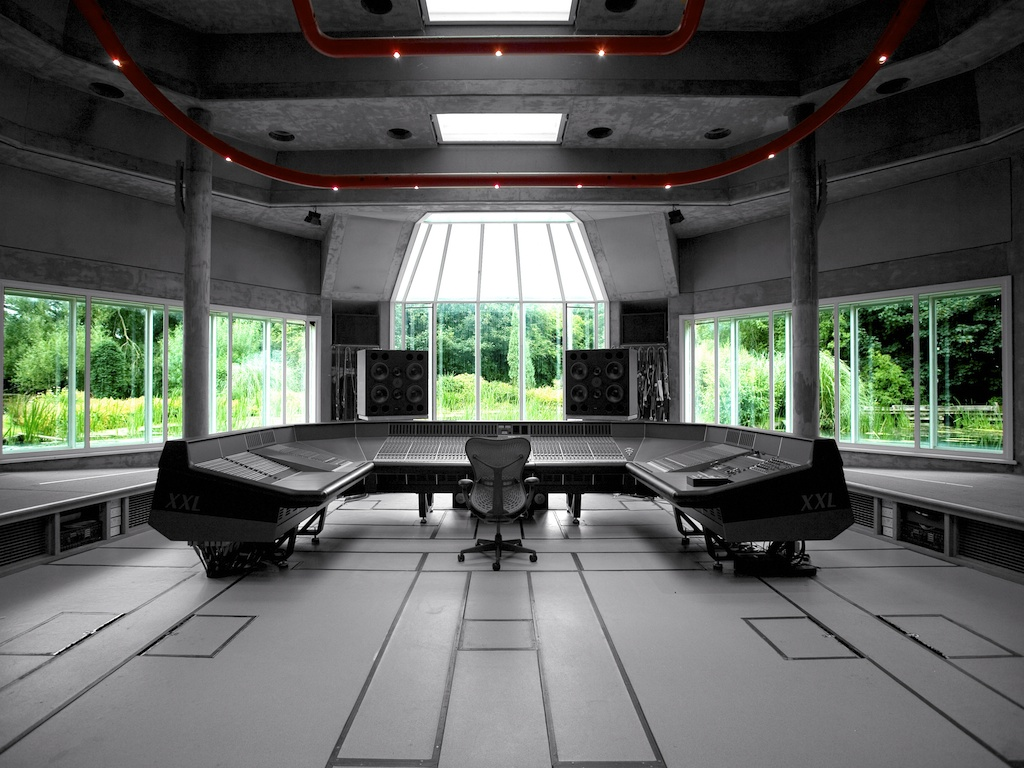 The Big Room